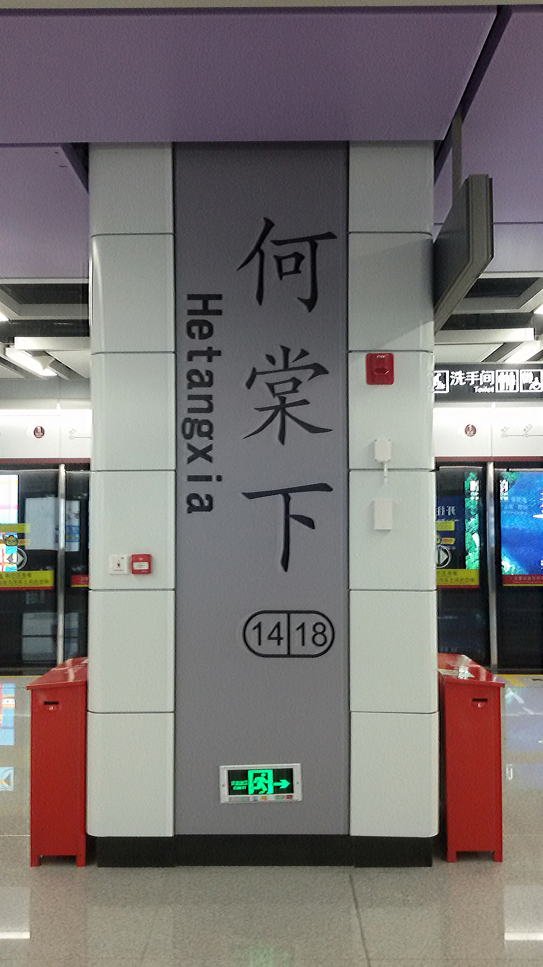 WORD on PILLAR for Hetangxia Station in Guangzhou Metro